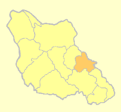 Location of Busovača municipality in Central Bosnian Canton